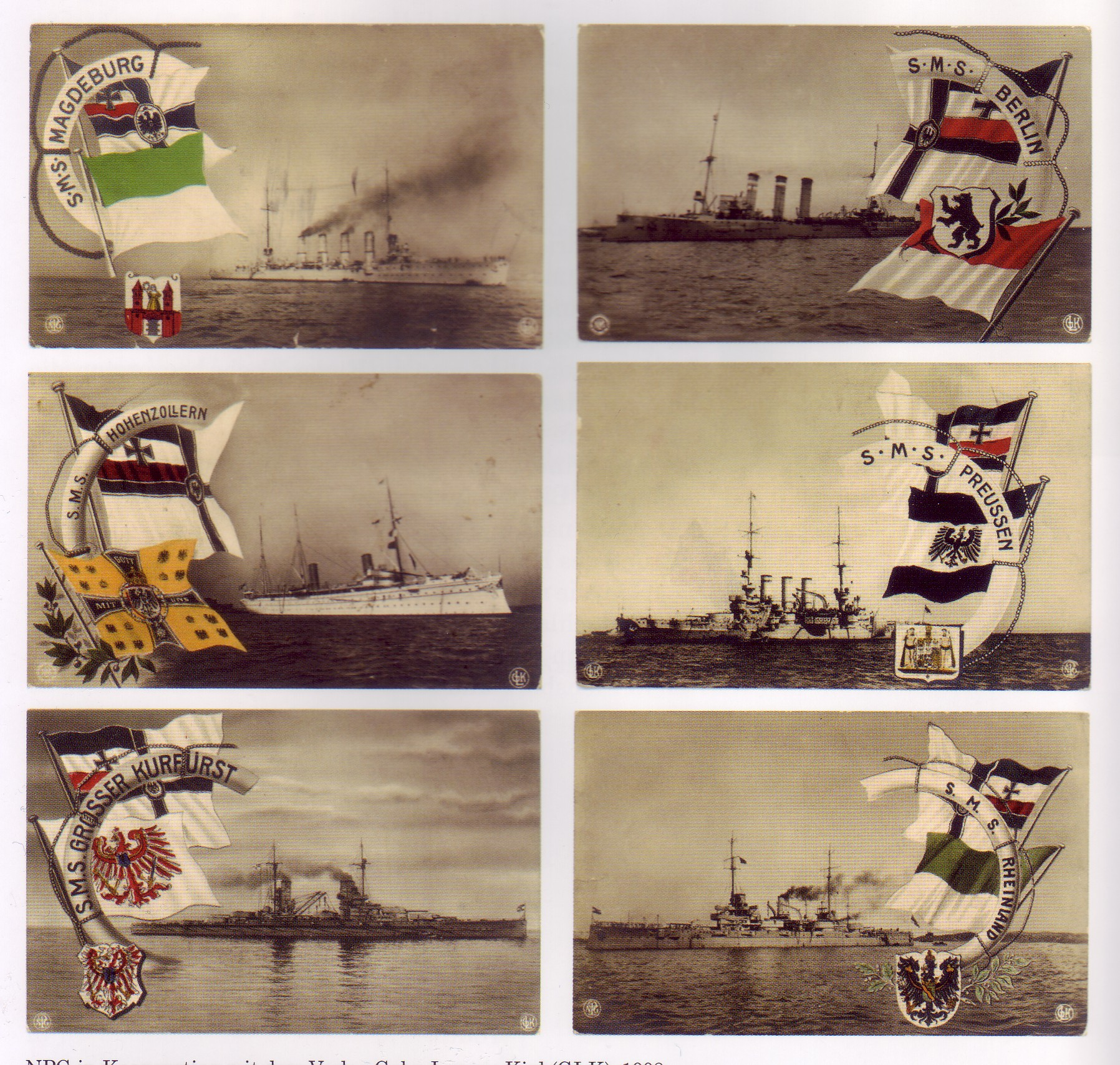 Postcards, produced by the "Neue Photographische Gesellschaft Steglitz" (New Photogaphic Society Berlin-Steglitz).